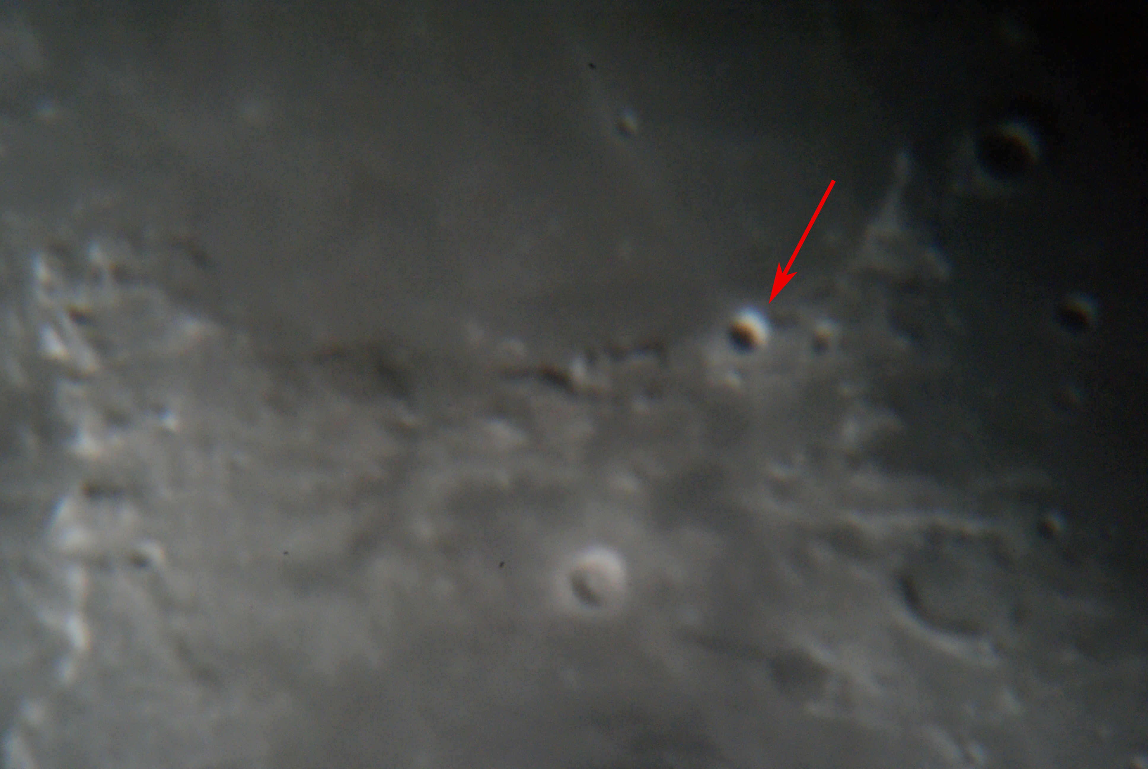 Menelaus Crater